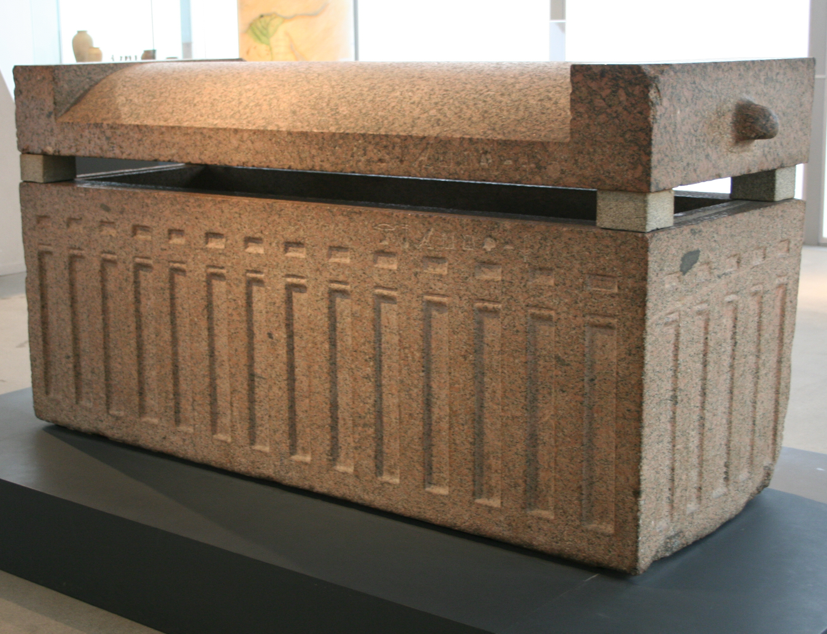 Sarcophagus of Kaiemnofret from his tomb at Giza. Granite. H 102 cm. IN 3177. Roemer und Pelizaeus Museum.